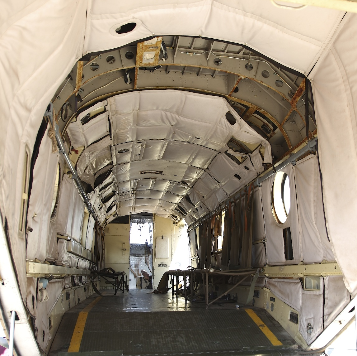 Loading deck of a SAAF Super Frelon. SAAF museum, Swartkop, Pretoria